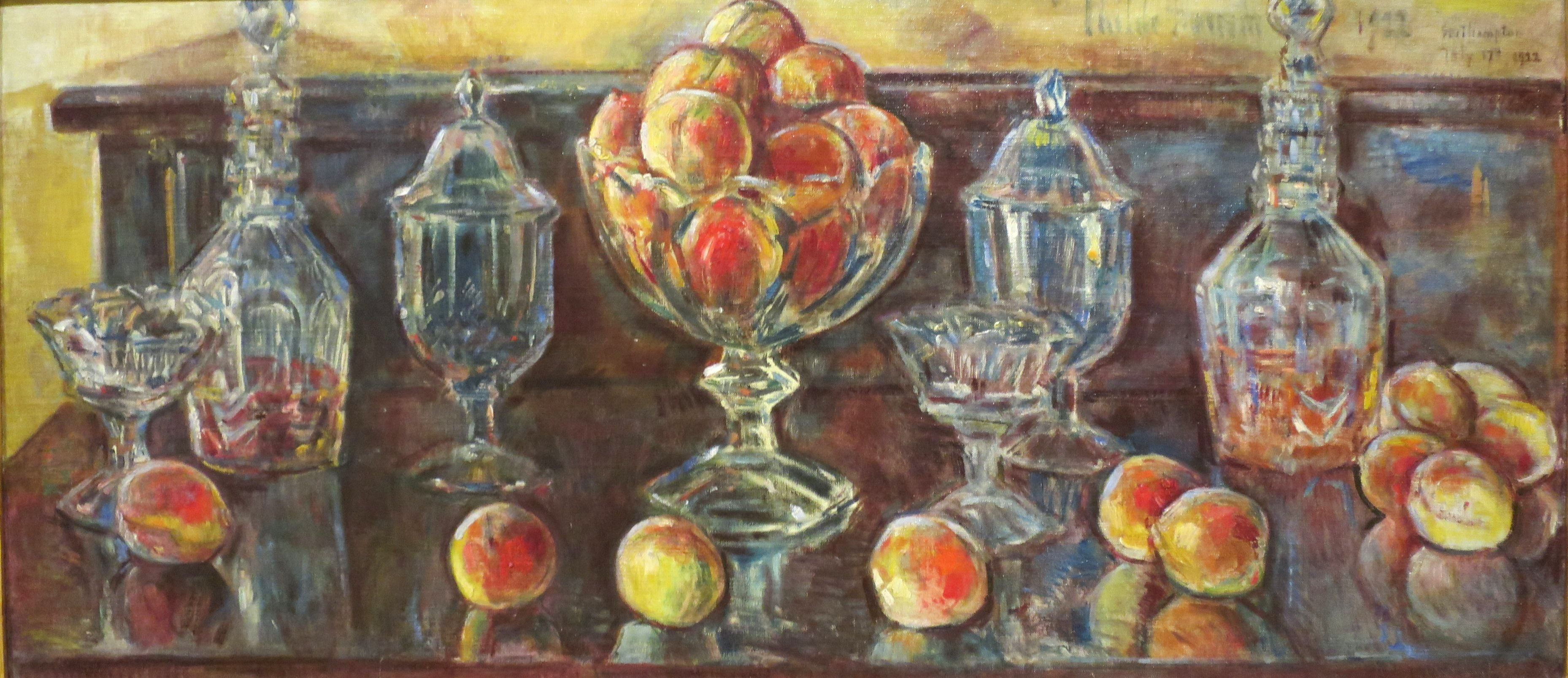 Still Life with Peaches and Old Glass